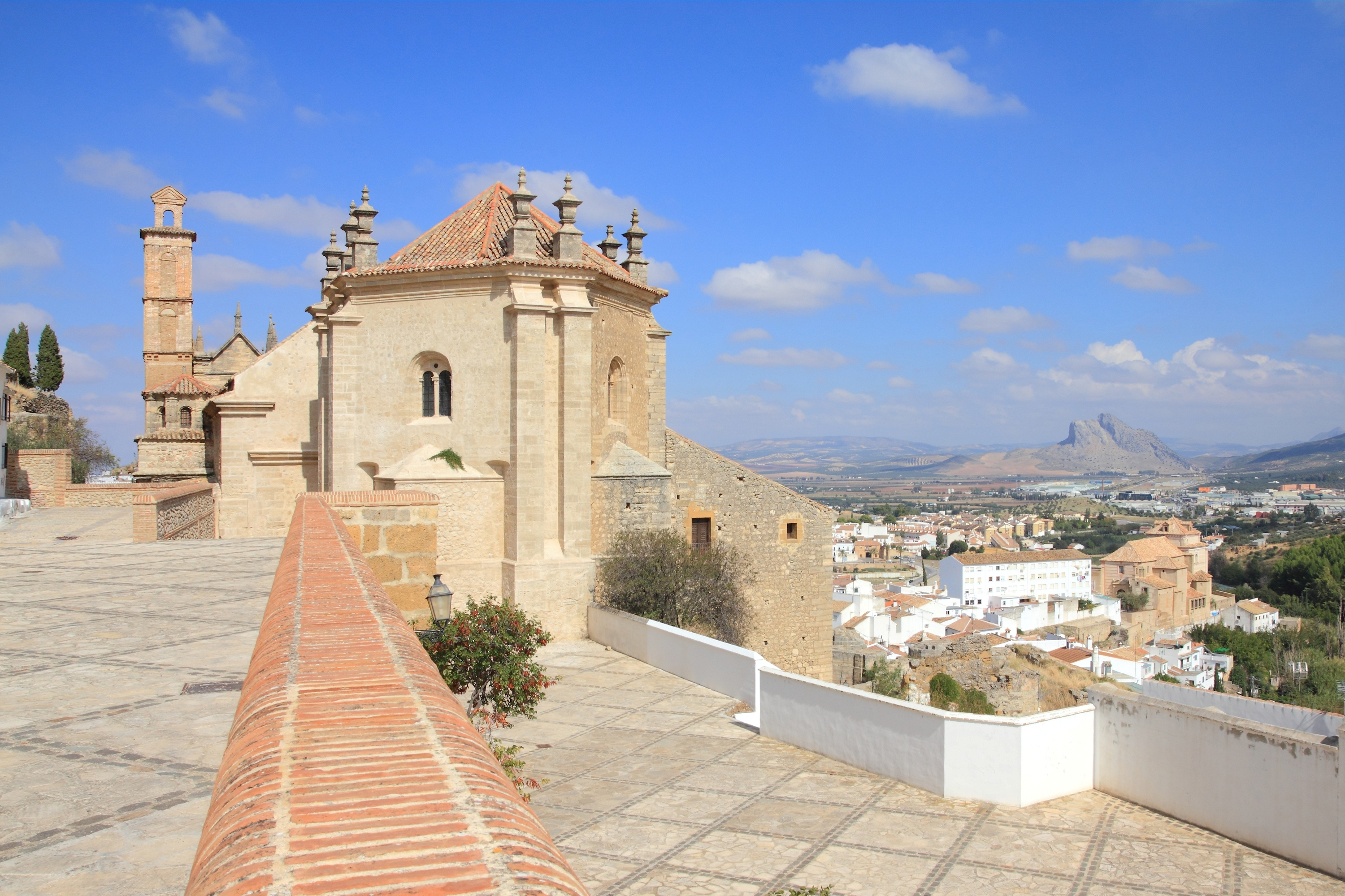 Royal Collegiate Church of Santa María la Mayor in Antequera, Andalusia, Spain. View of Antequera town on the right. Peña de los Enamorados ("The Lovers' Rock") mountain in the background on the right.